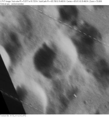 Krogh lunar crater - Lunar Orbiter - IV image LO-IV-178H.